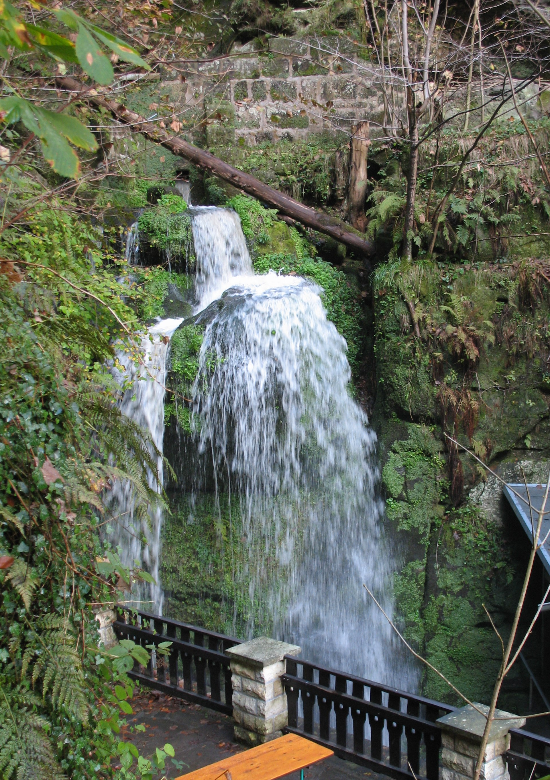 Amsel Falls near Hohnstein-Rathewalde in Saxony, Germany